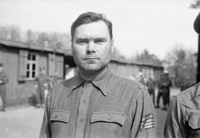 The Schutzstaffeln (ss) Josef Kramer, Commandant of Belsen Concentration Camp, after his capture by Allied forces. 13 April 1945.